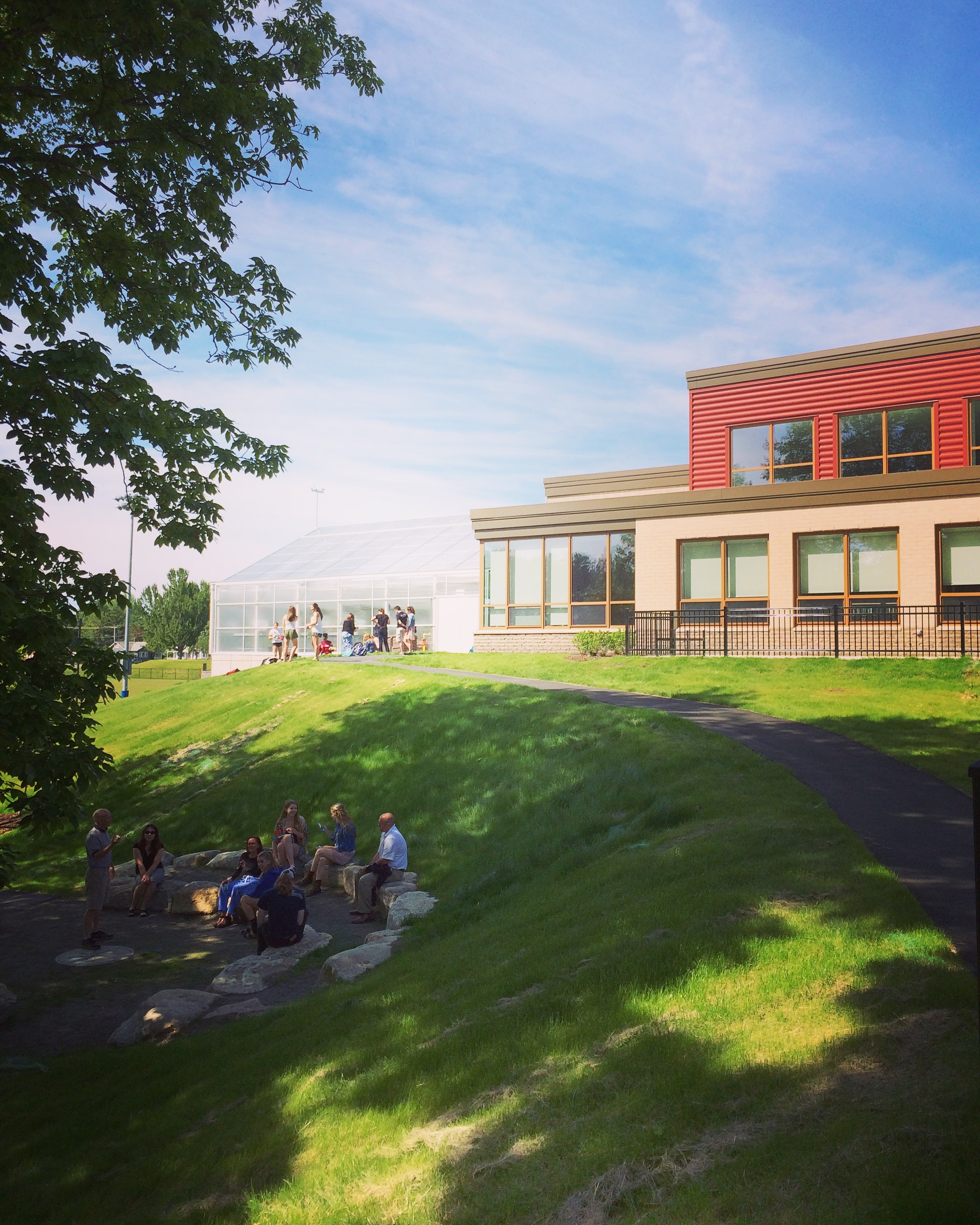 A photo of the outdoor classroom and greenhouse at Lunenburg Middle/High School